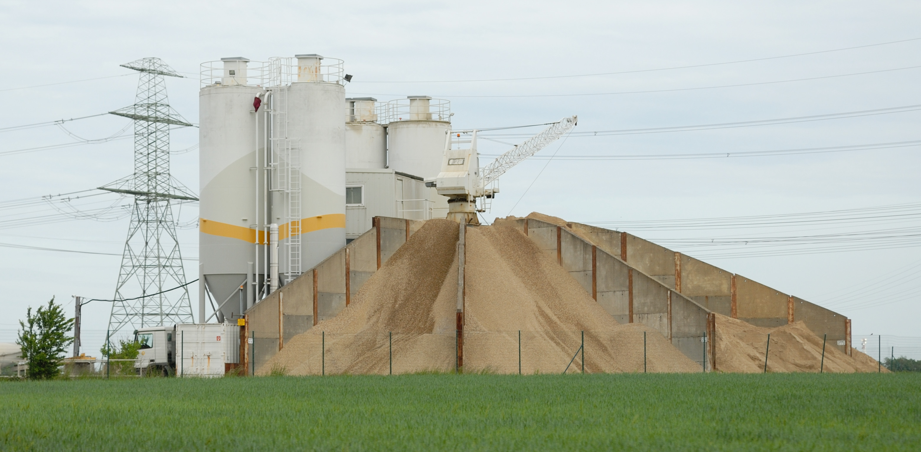 Concrete plant plant of HeidelbergCement AG in Ahrensfelde, Brandenburg (2009). Road shot from B 2.